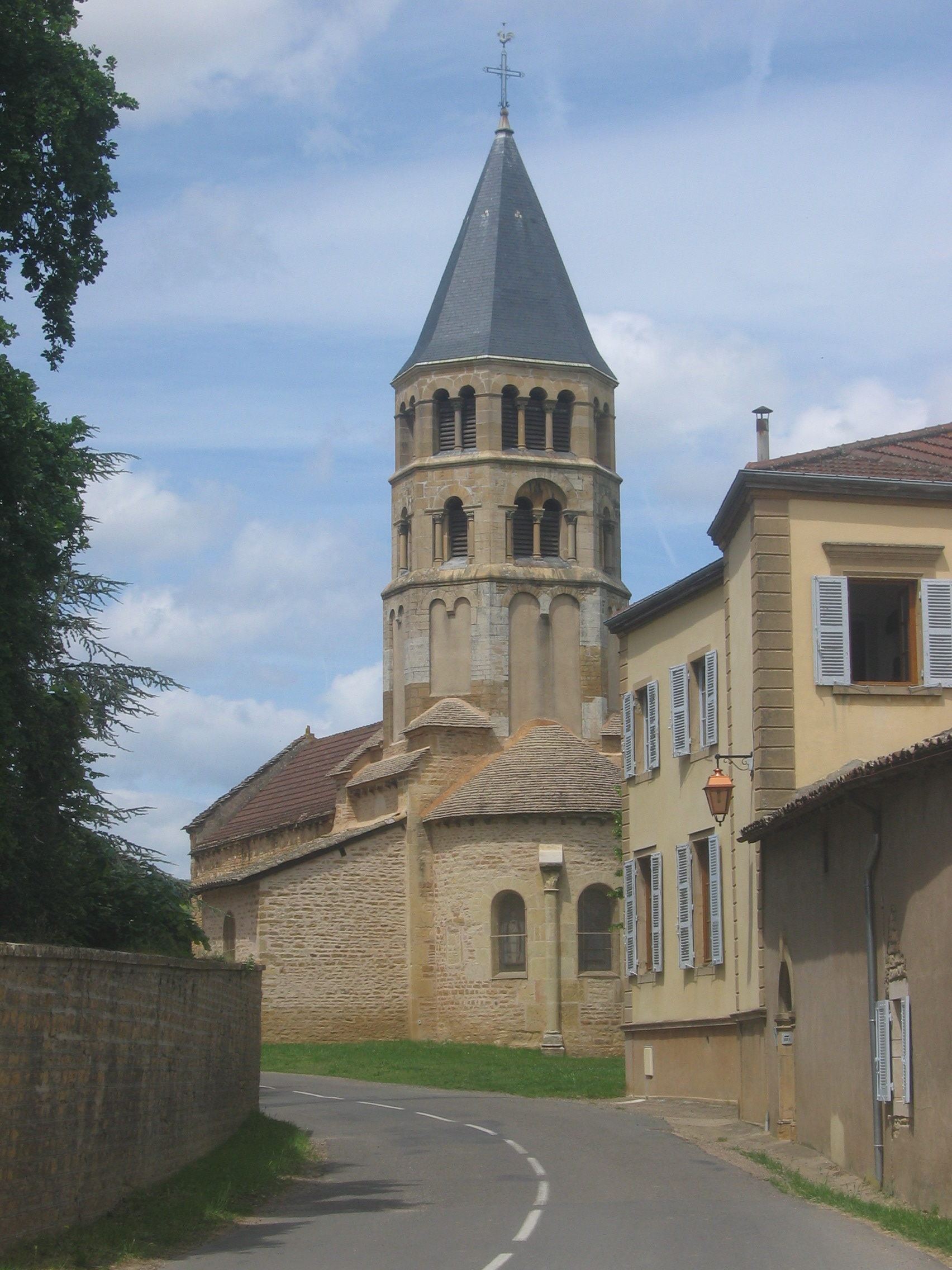 Church of Chânes (French village)